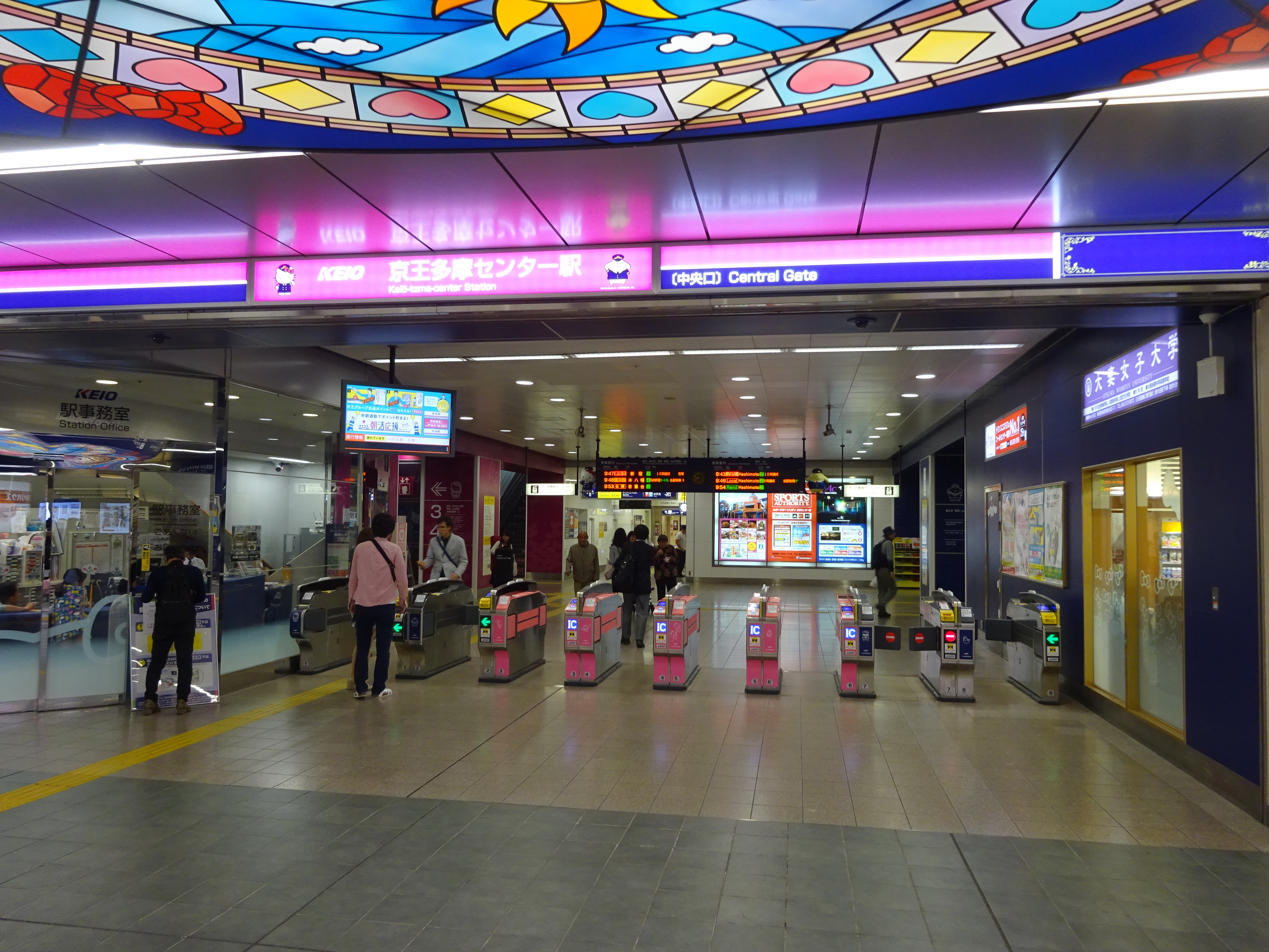 Ticket barriers of Keiō Tama-Center Station